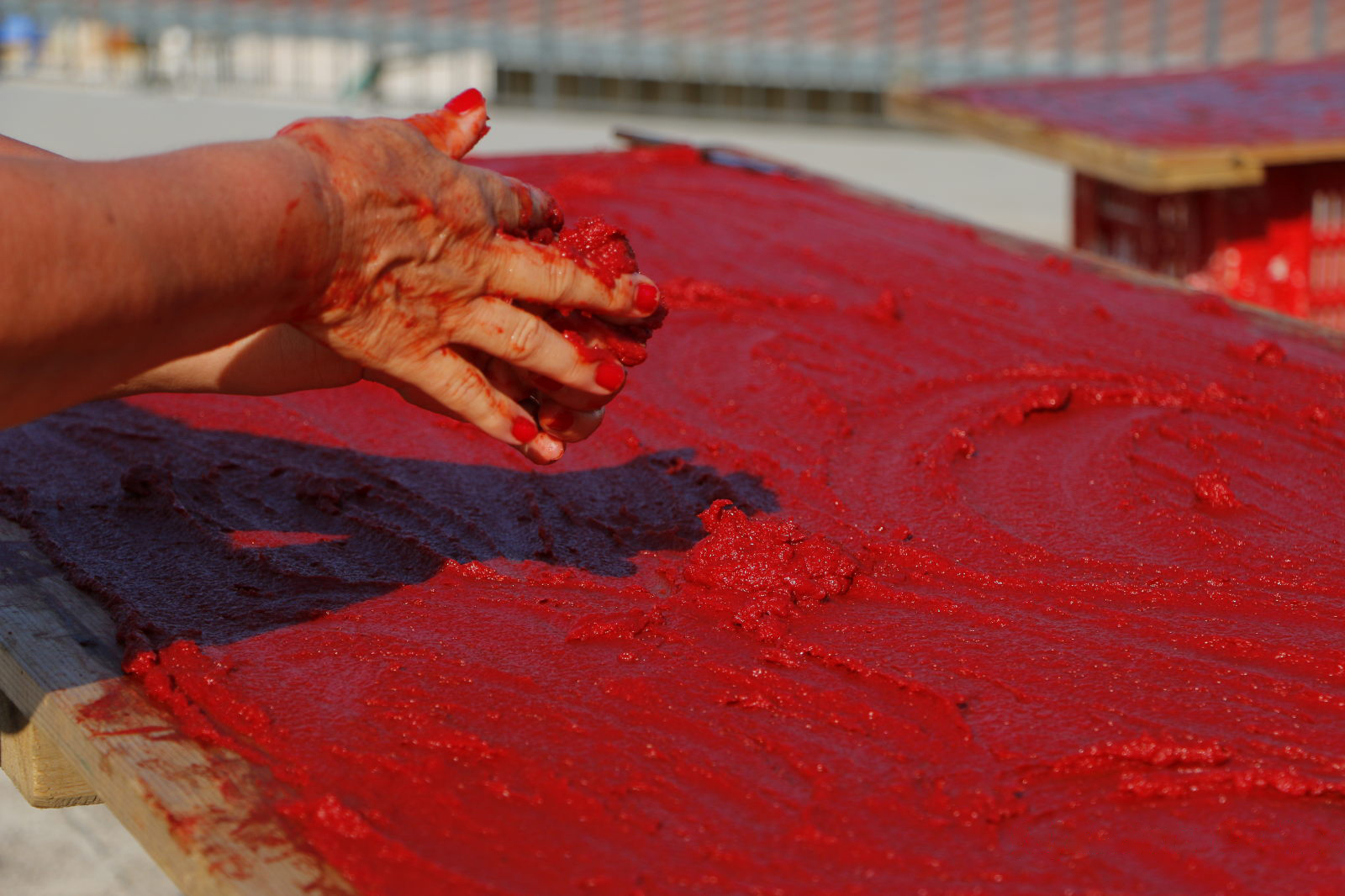 Artisanal preparation of tomato paste in Sicily - Italy